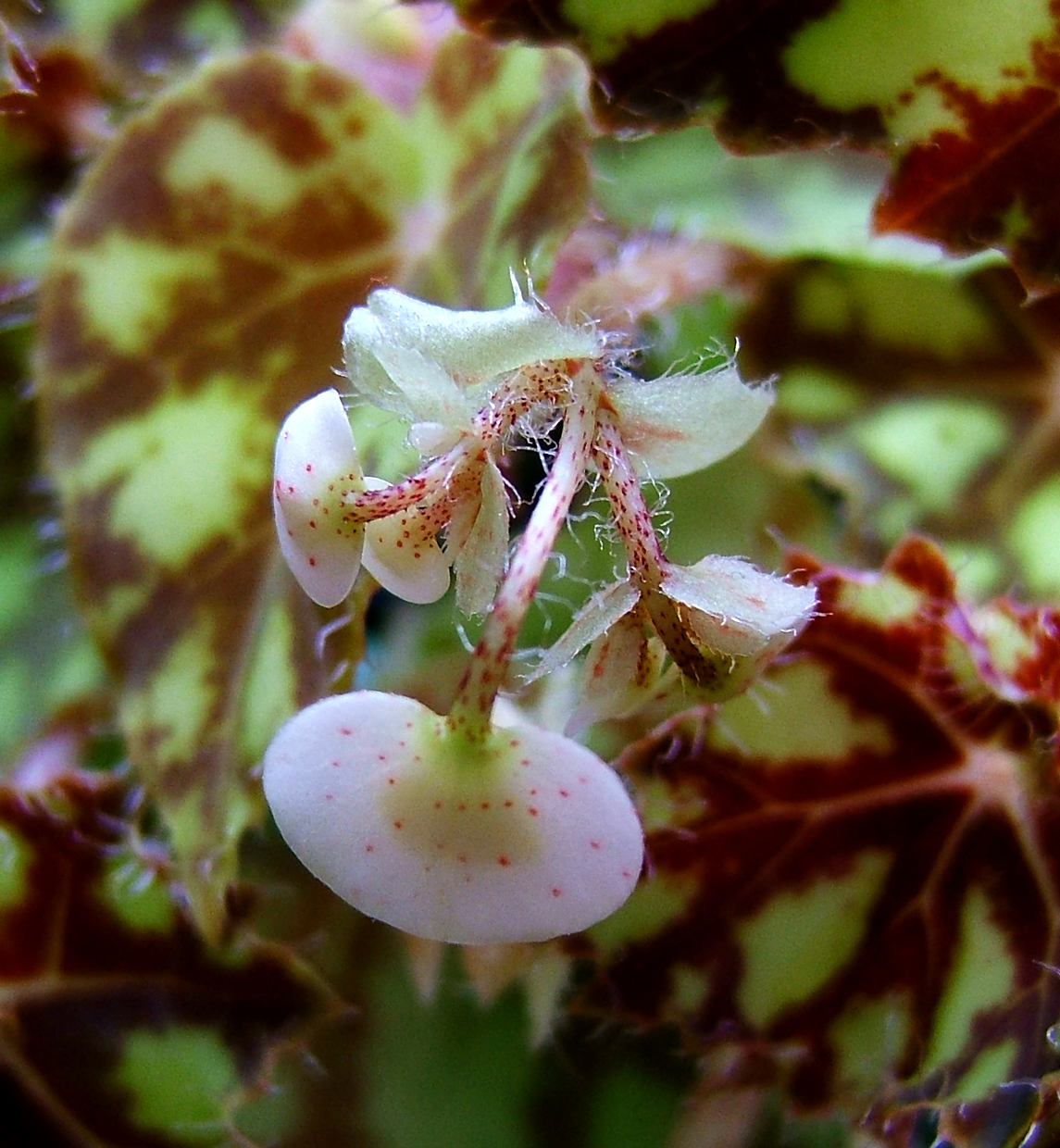 eyelash begonia, male flowers